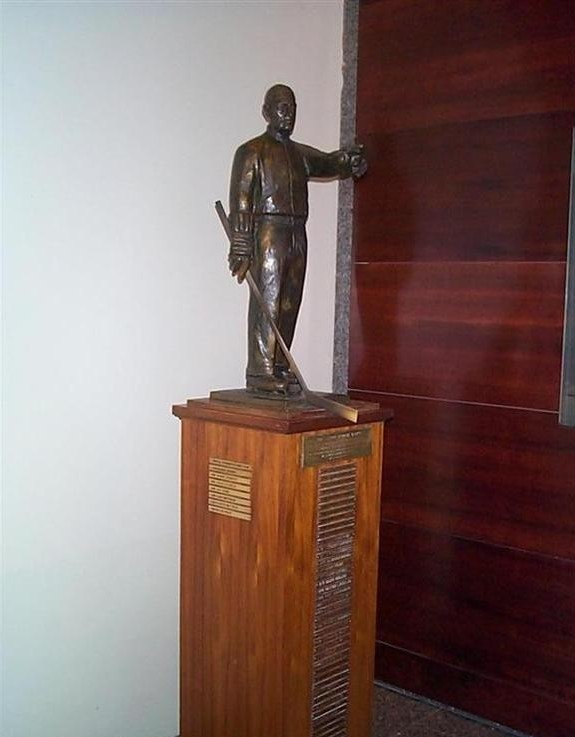 Photo of the Lester Patrick Trophy, taken at the Hockey Hall of Fame in Toronto, Ontario, Canada.